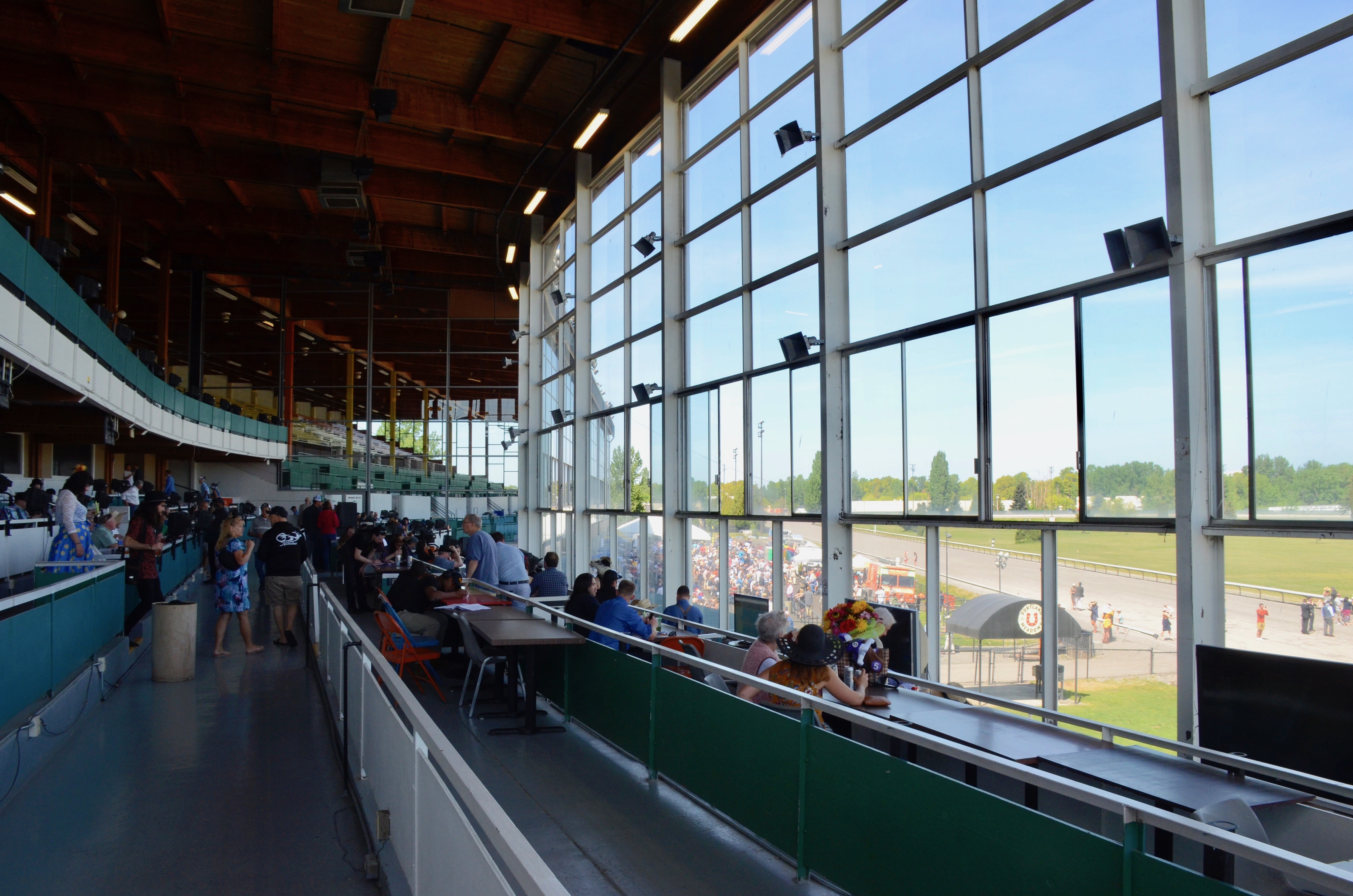 Interior view of Portland Meadows horse racetrack in Portland, Oregon, from the south end of the Club House section, looking north toward the grandstand. The photo was taken on the day of the 2019 Kentucky Derby, and this facility was open for the public to watch that race (via TV monitors), and place bets on it. However, no races were scheduled to take place at this track, so the grandstand was closed, but other parts of the building were open.